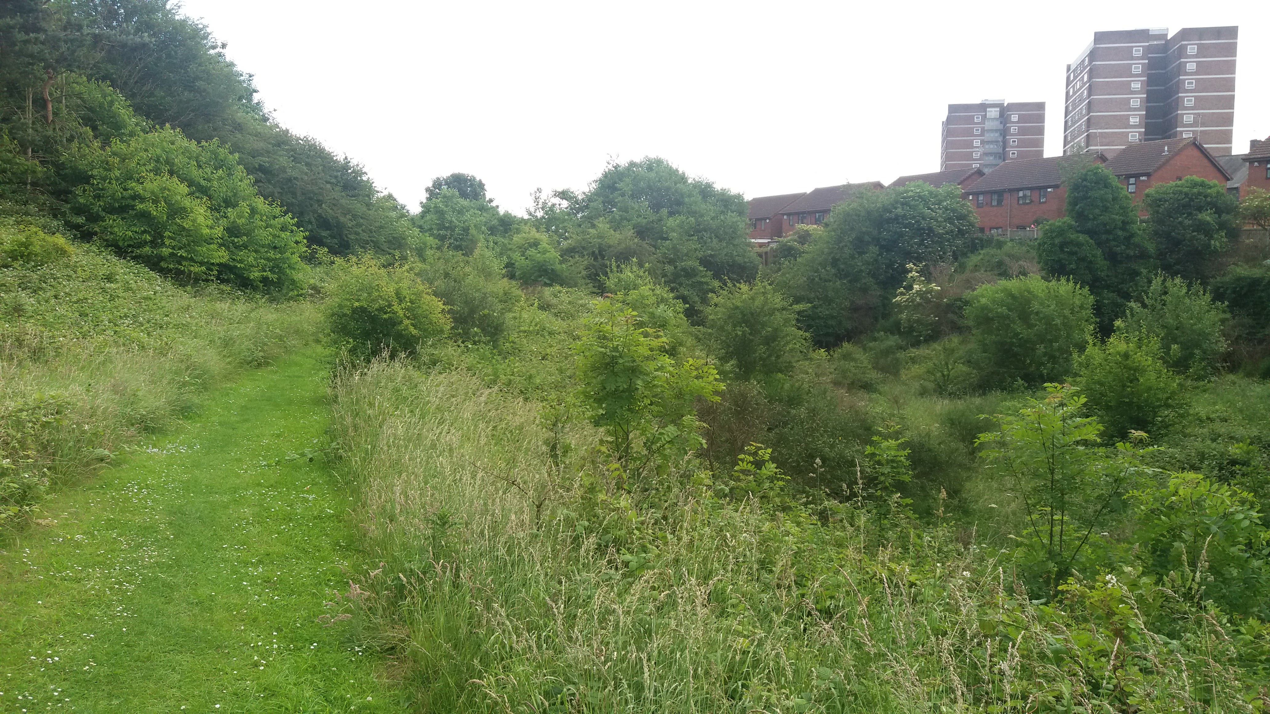 To update the page.